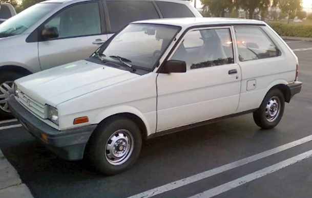 First generation Subaru Justy, US version